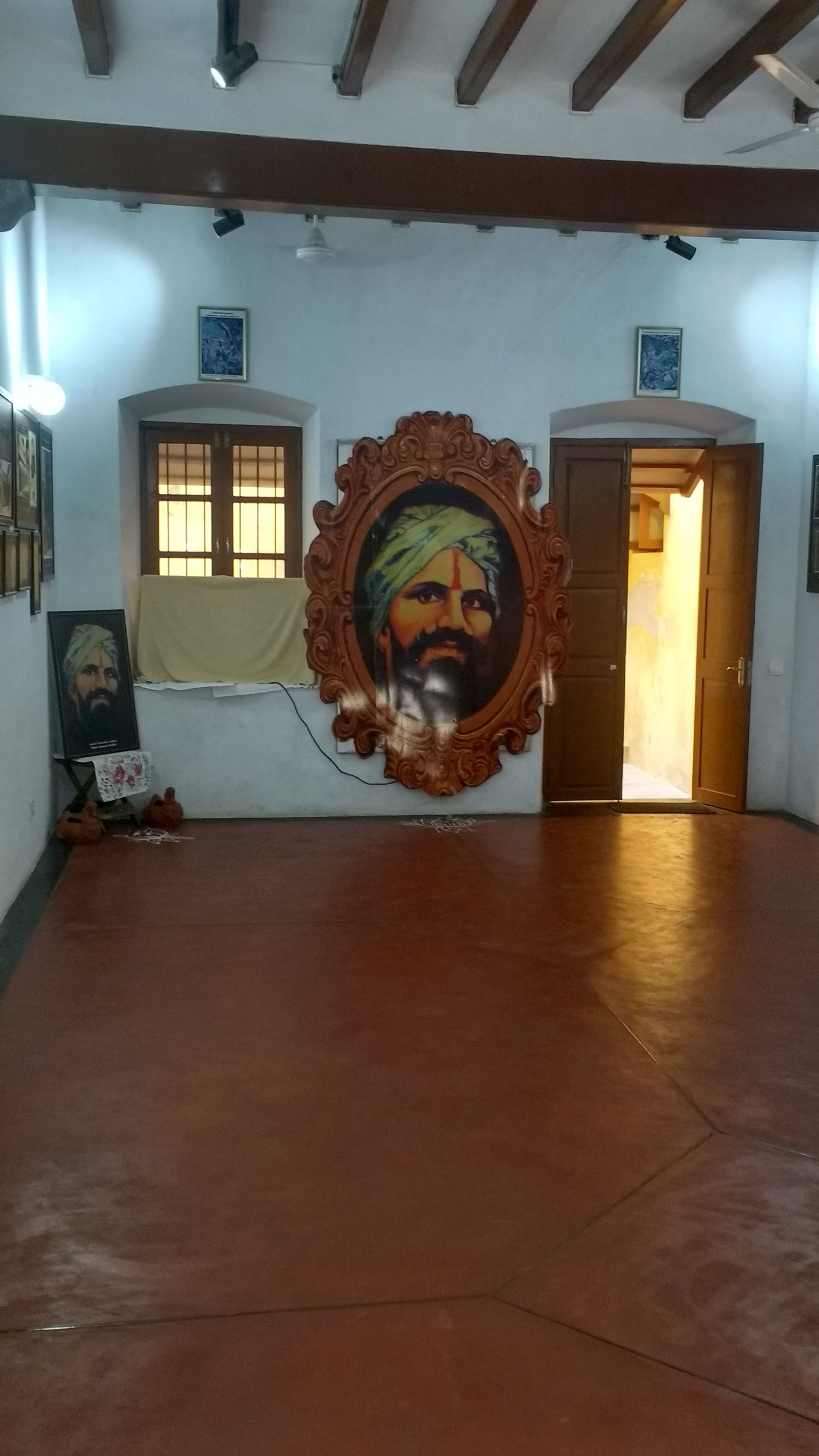 These are the images of Bharathiyar House in Puducherry. He was staying there for 10 years.